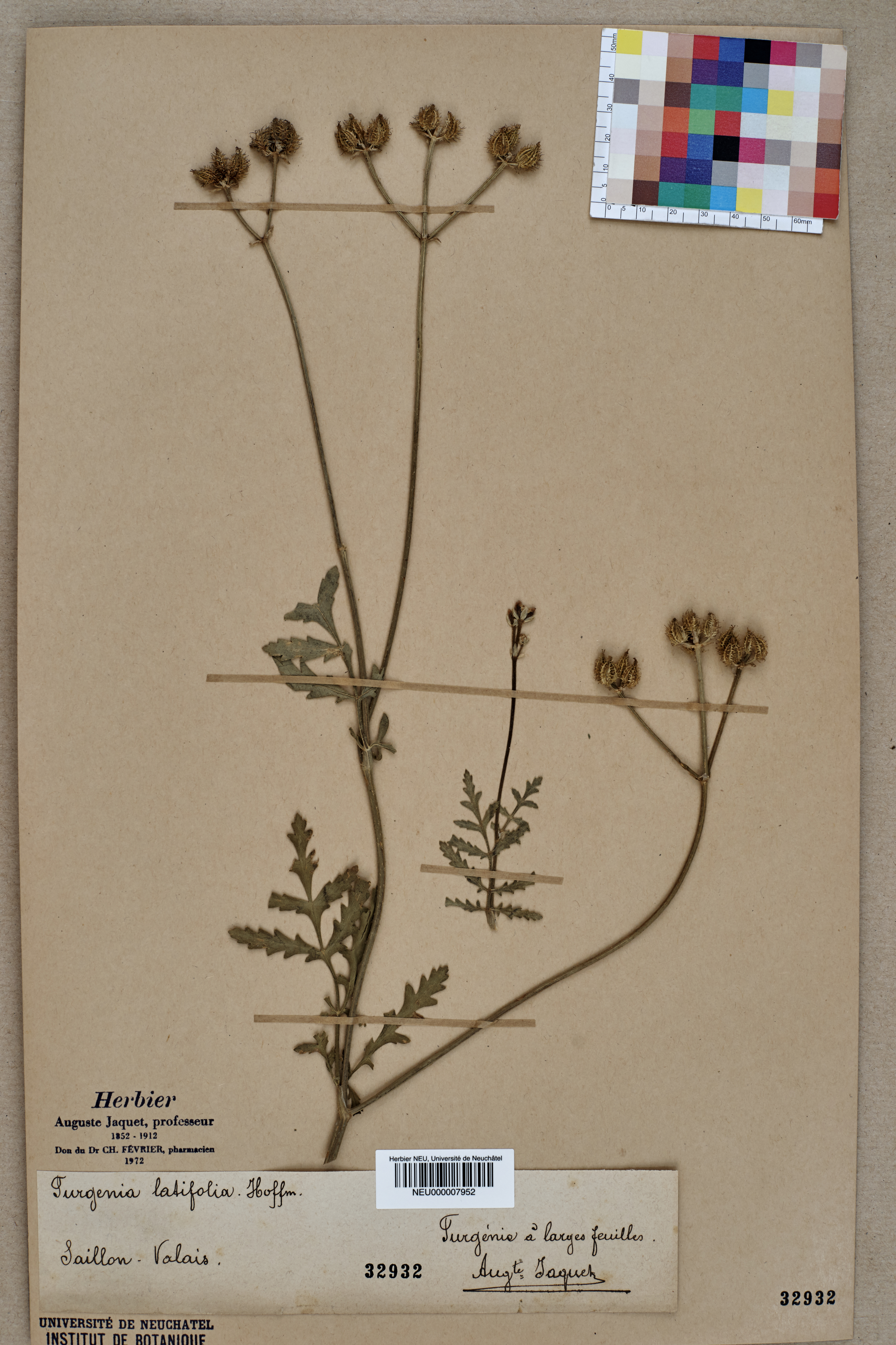 Dried pressed specimen of Turgenia latifolia